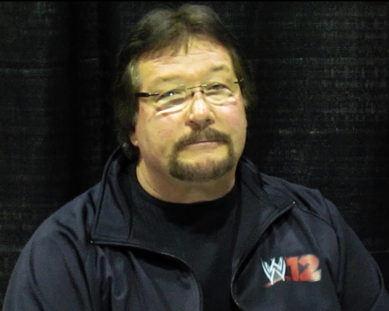 Theodore Marvin DiBiase, born January 18, 1954, is a retired professional wrestler. DiBiase achieved championship success in a number of wrestling promotions, holding thirty titles during his professional wrestling career. He is best remembered for his time in the World Wrestling Federation (WWF), where he wrestled as "The Million Dollar Man" Ted DiBiase. Photo taken at the Calgary Comic and Entertainment Expo, BMO Centre, Calgary, Alberta, Canada.